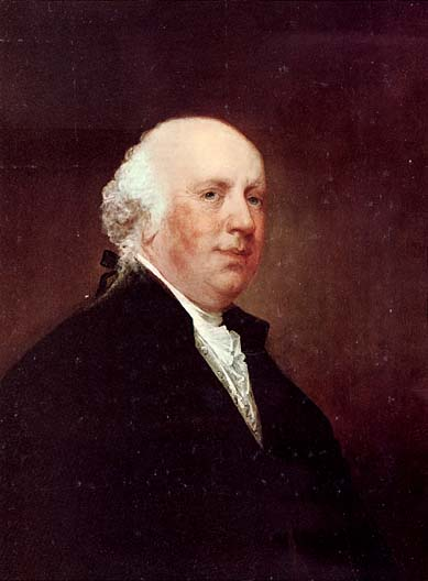 Portrait of Continental and United States Army General Henry Jackson (1747-1809)